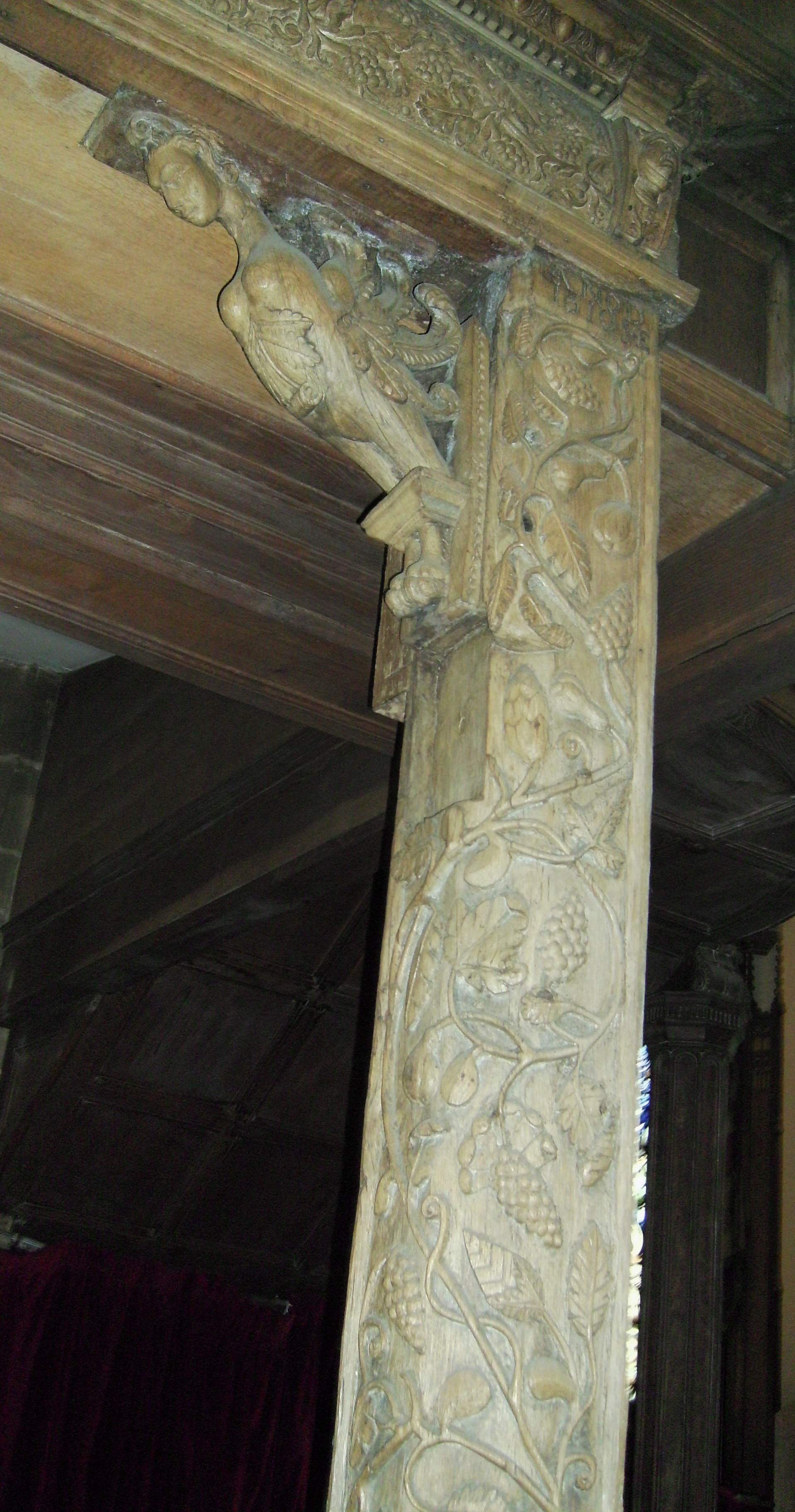 Carving on West Gallery, c. 1610. St. Peter's Collegiate church, Wolverhampton, West Midlands, England. Parish of Central Wolverhampton WV1 1TS.